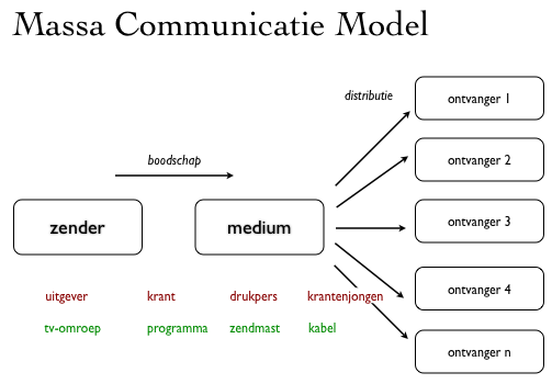 Representation of the classic communication model, applied to mass communication.